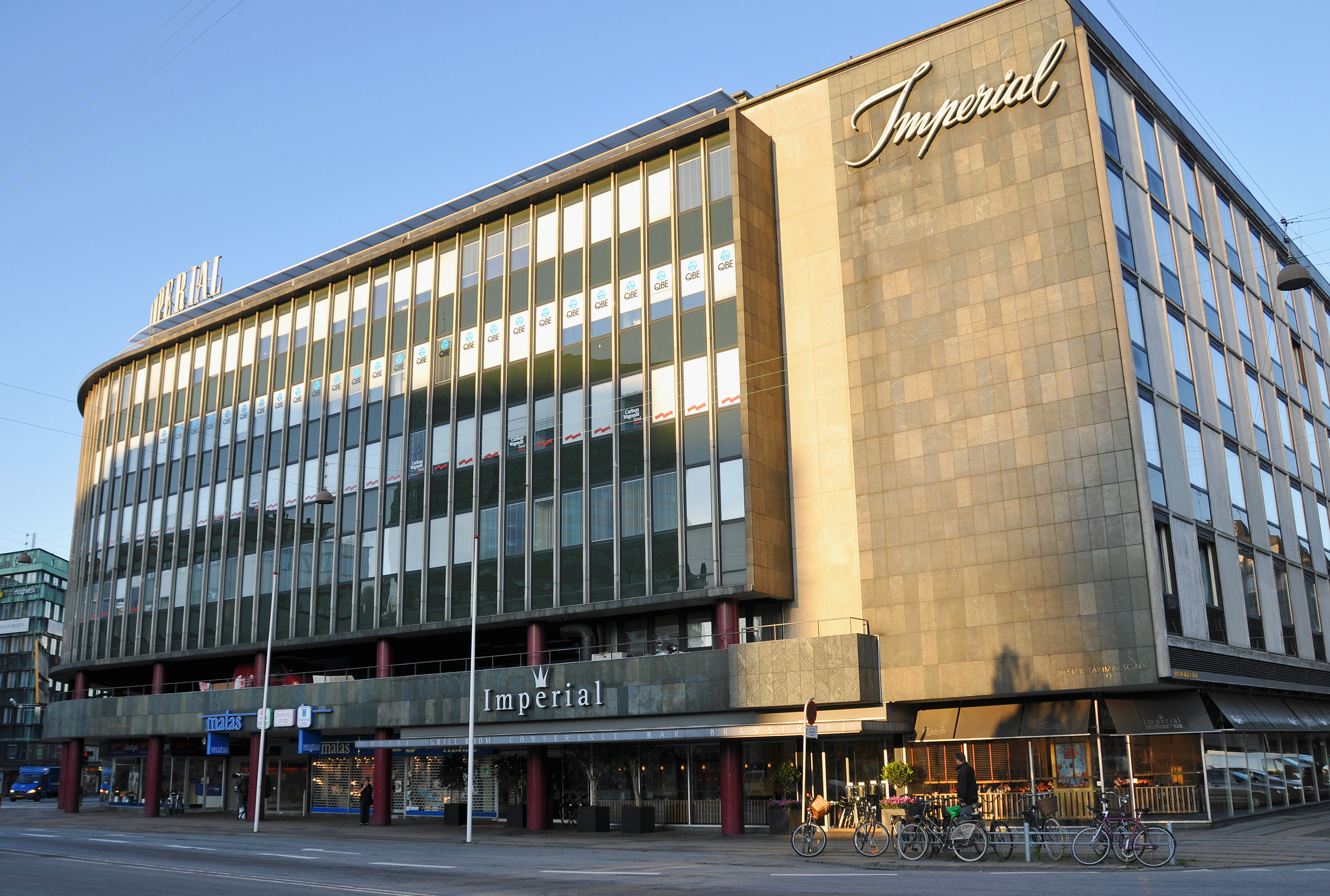 The Imperial cinema in Copenhagen, Denmark